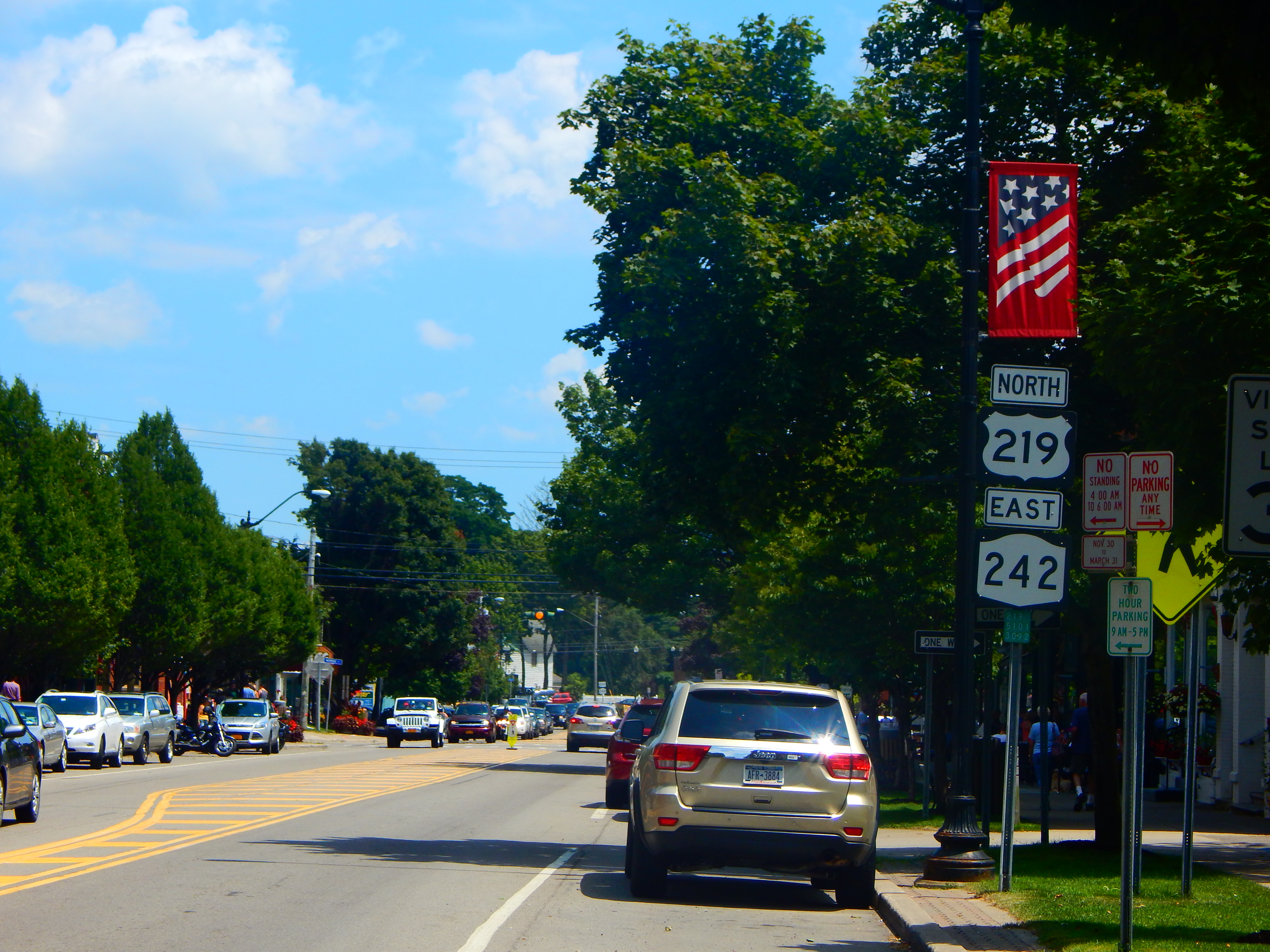 U.S. Route 219 and State Route 242 in downtown Ellicottville, New York.